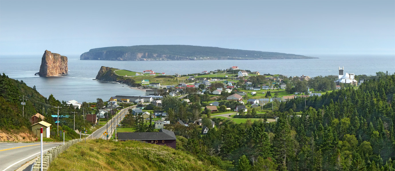 Percé, Gaspésie–Îles-de-la-Madeleine, Quebec, Canada. Panoramic view from Route 132 southbound.